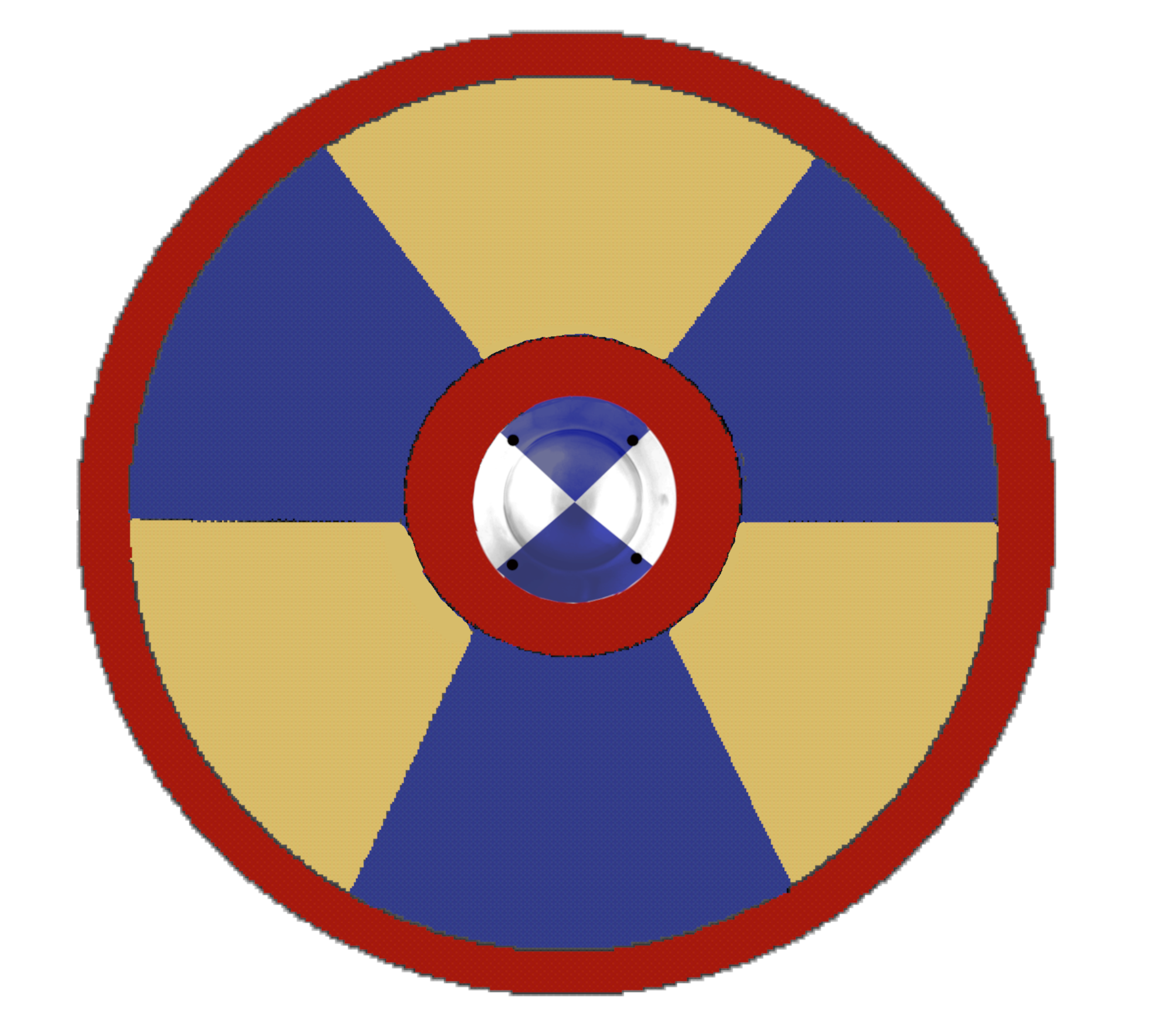 Shield pattern o.t. Mattiarii iuniores (West), one of the legiones comitatenses listed in the Magister Peditum's infantry list, and assigned to his Italian command.